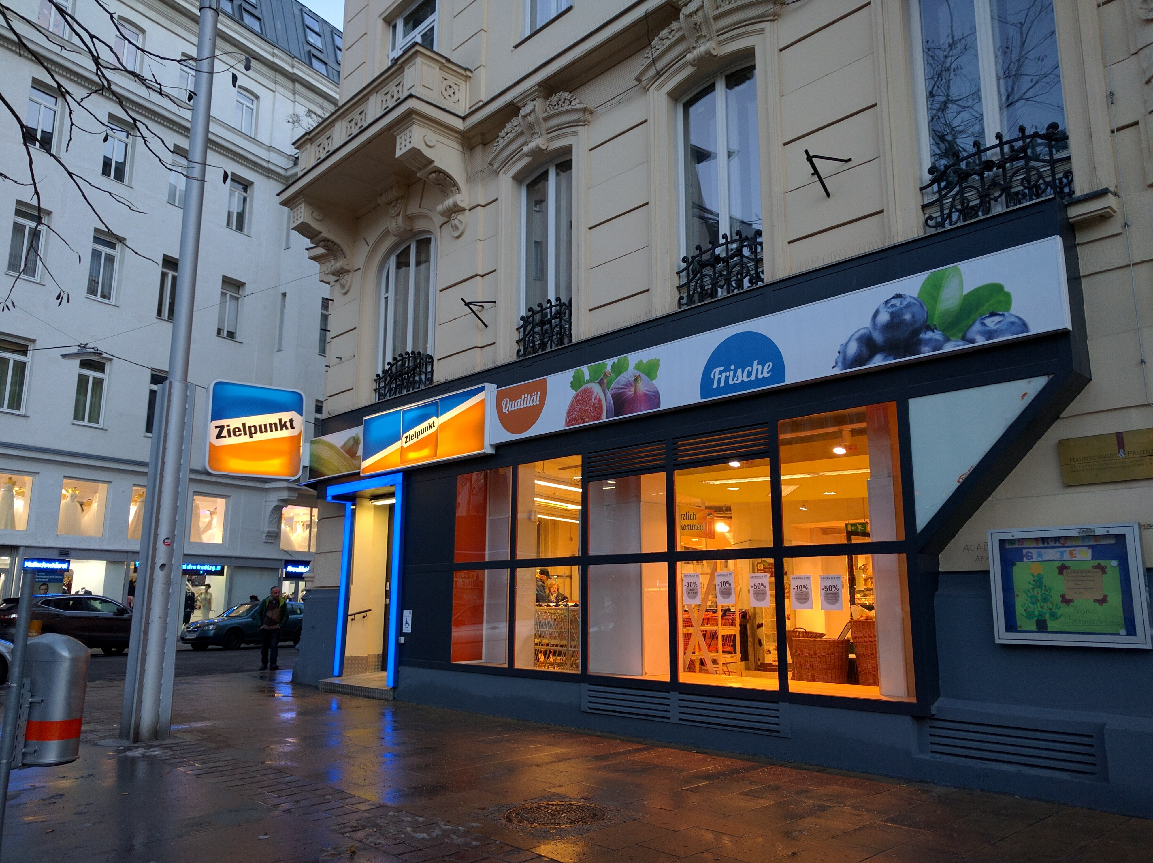 Zielpunkt store in 1090 Vienna, Austria